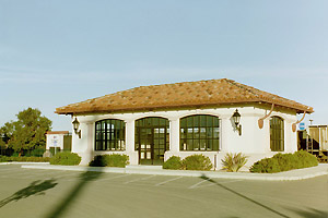 Guadalupe station in December 2001